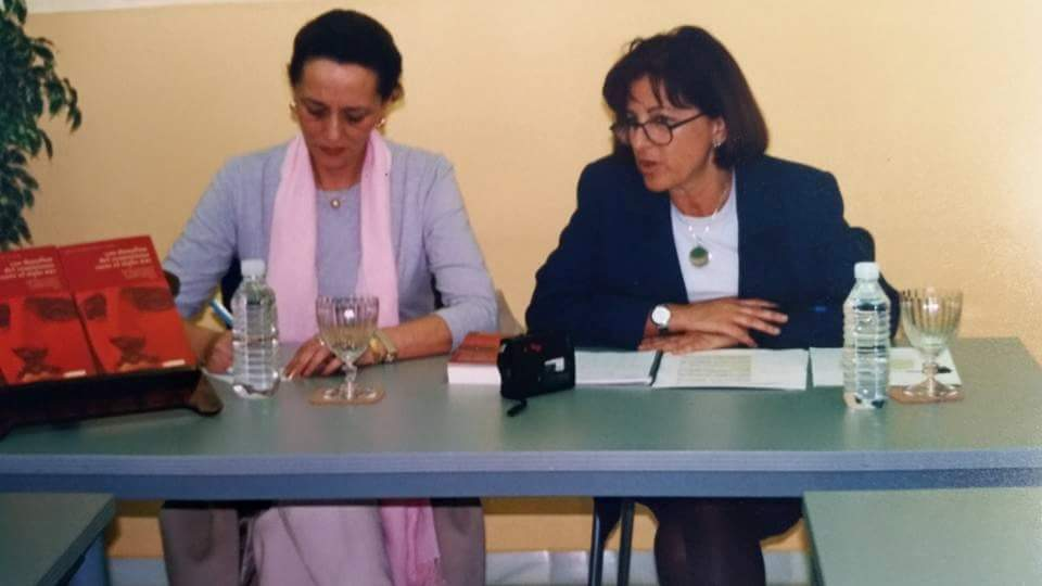 Sevilla 1996